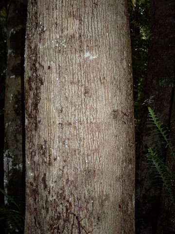 Emmenosperma alphitonioides, bark Foxground